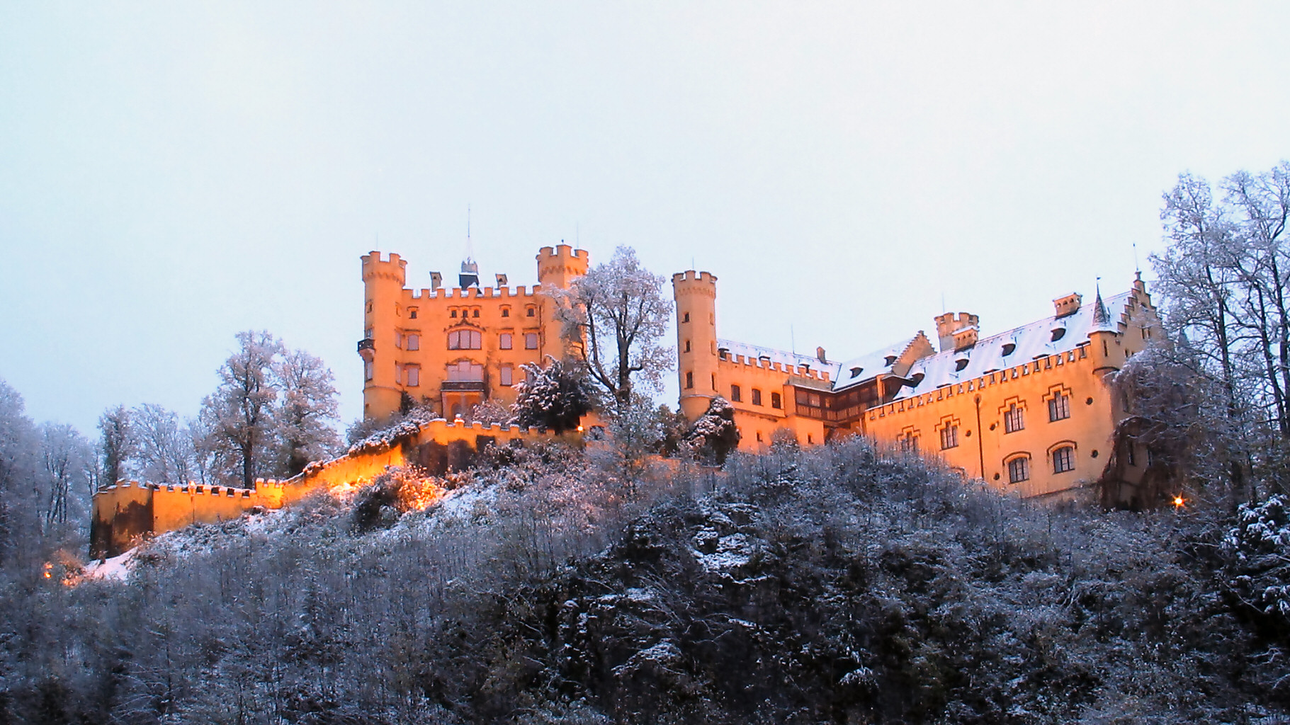 The castle Hohenschwangau near Füssen in Bavaria, Germany.